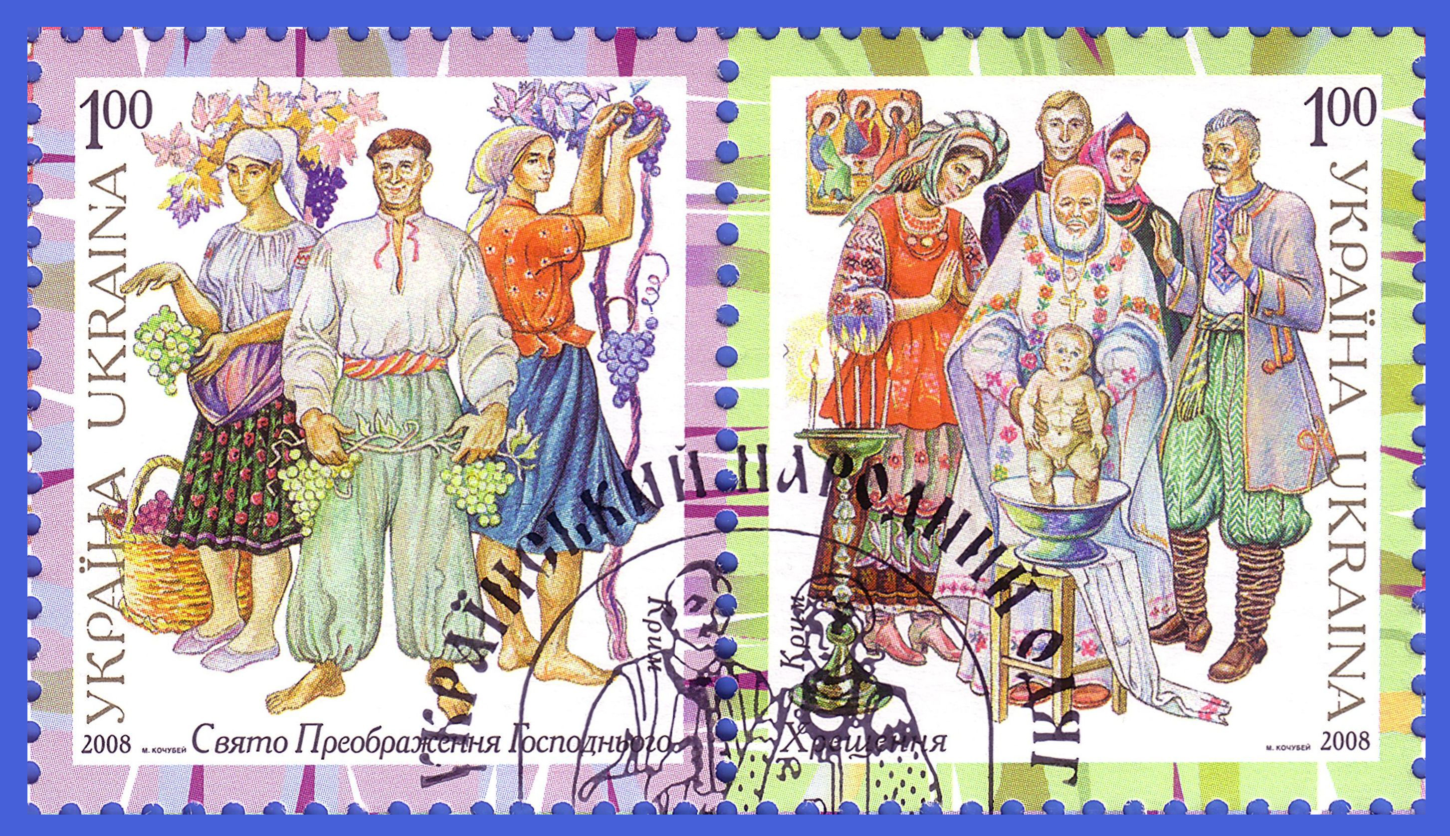 Stamps with Ukrainian traditional clothing - Crimea. 2008.